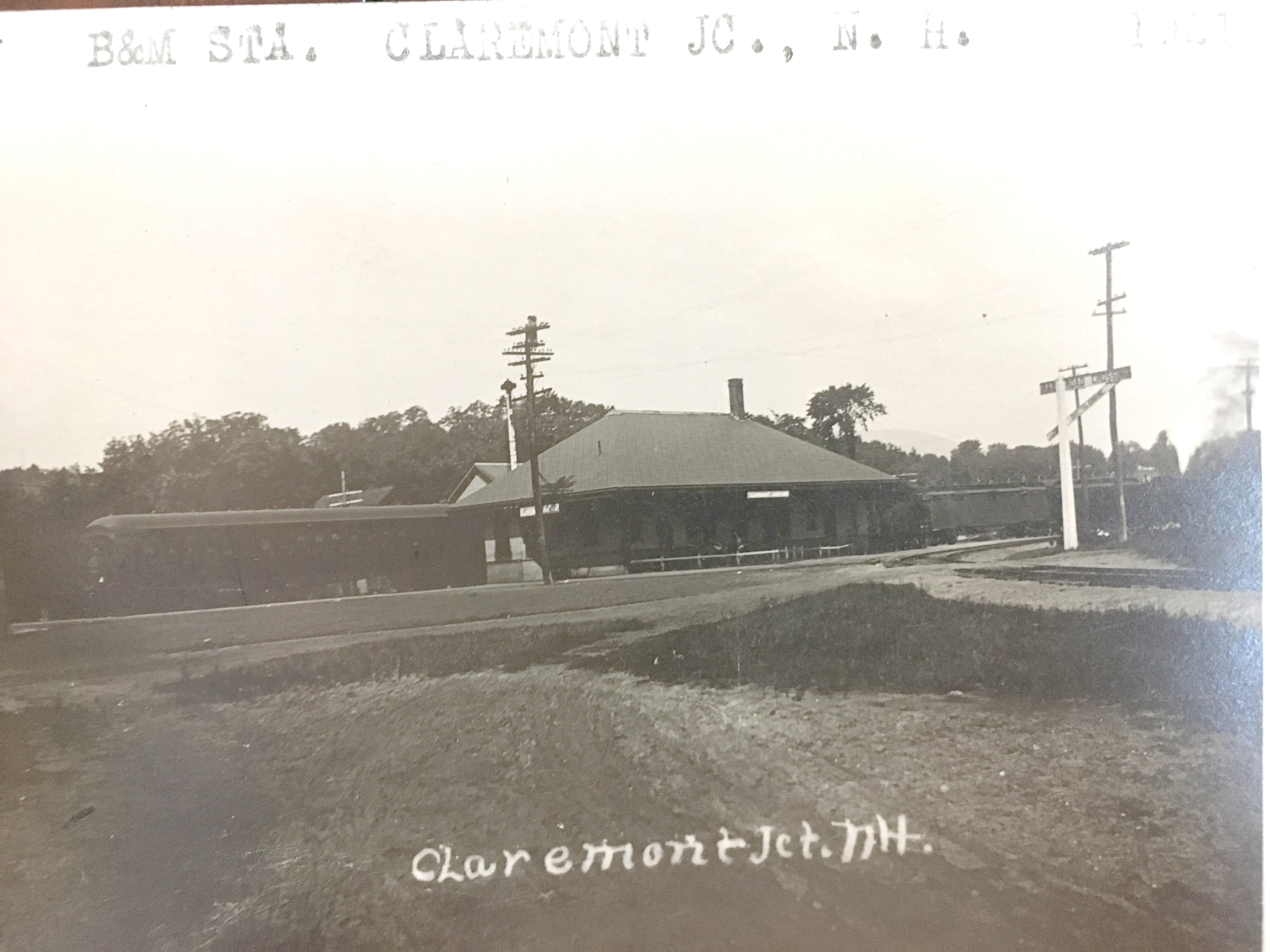 1921 Boston and Maine Railroad Station at Claremont, NH